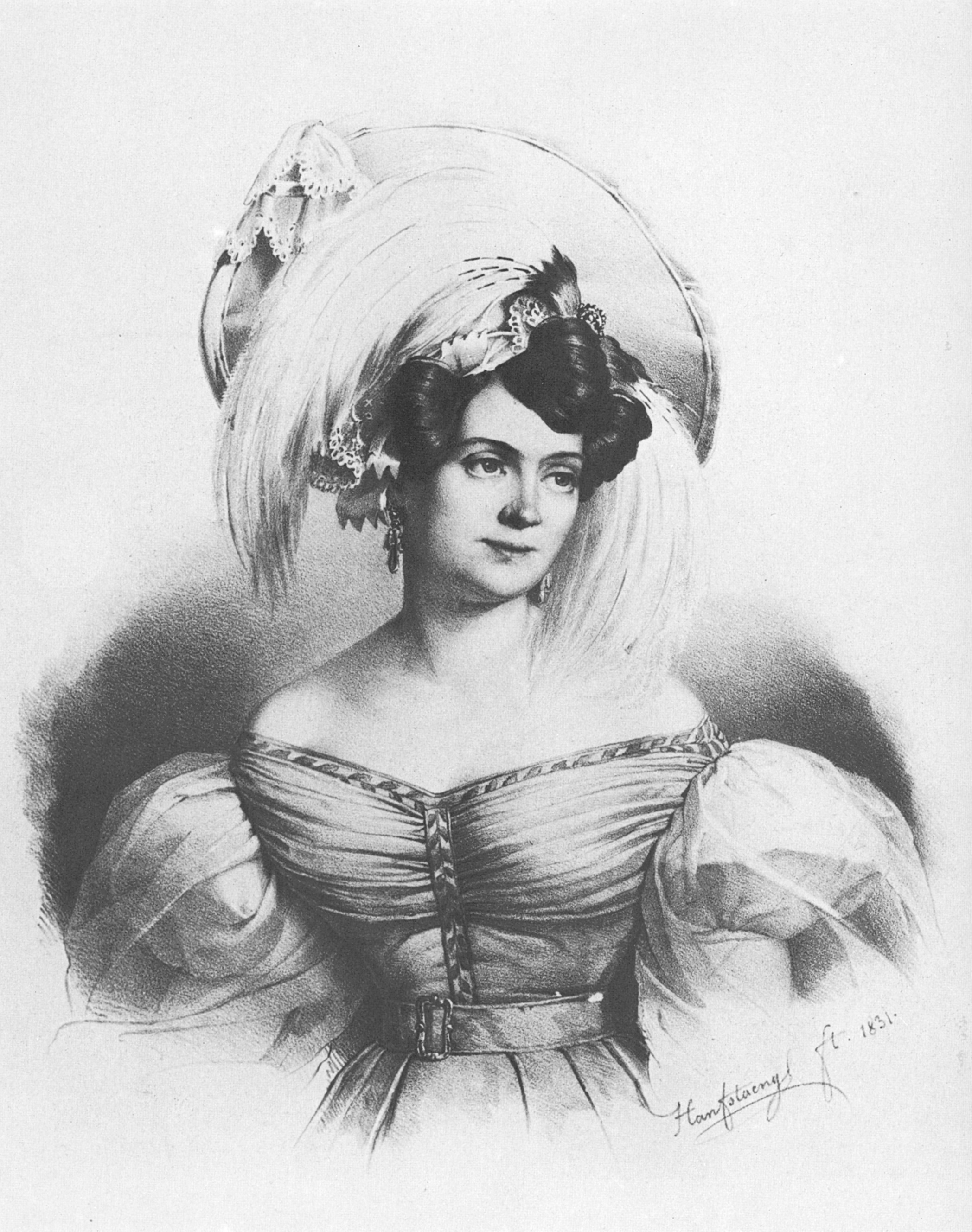 Charlotte Birch-Pfeiffer (1800-1868), Lithography